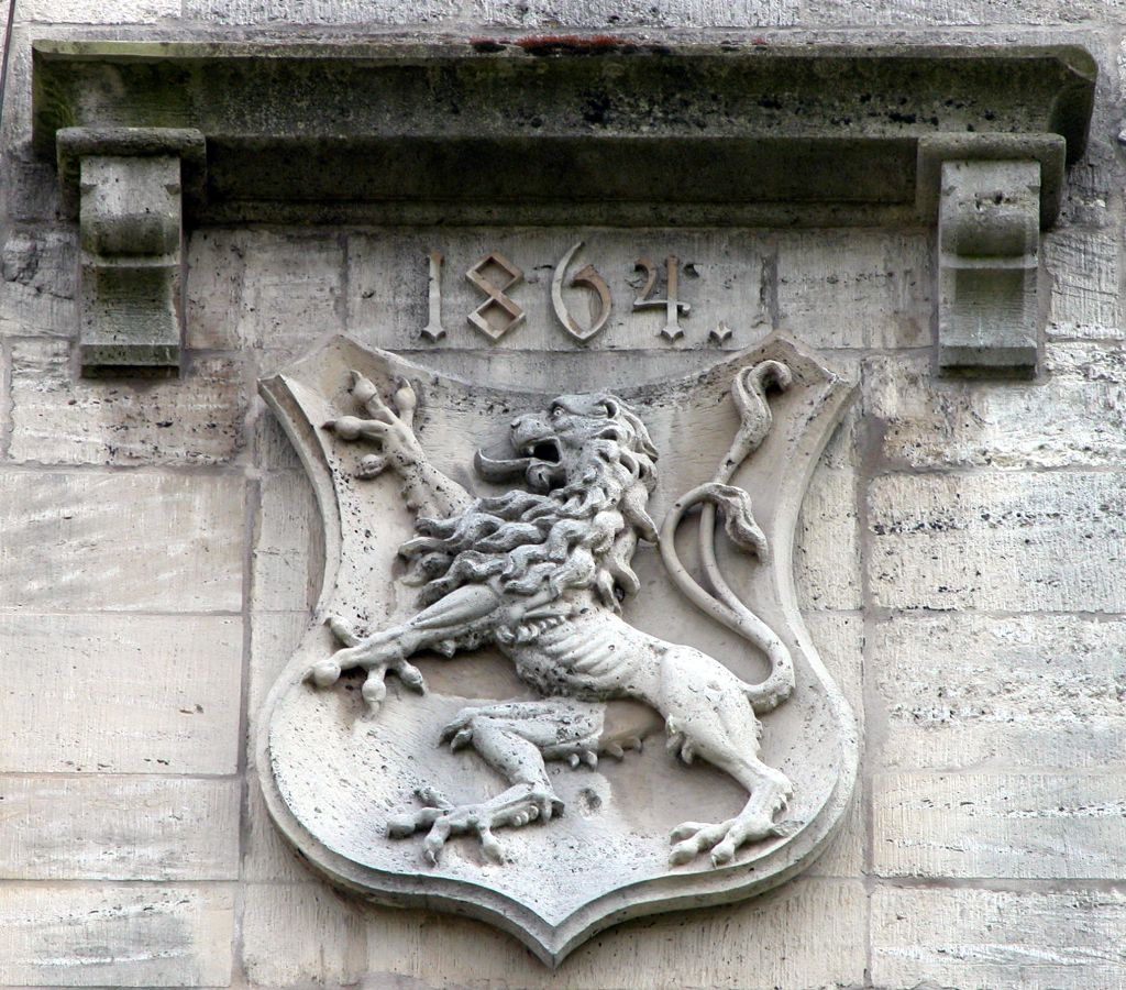 Brunswick, Germany: Lion sculpture on the so-called “Water tower” in the Bürgerpark (Citizens’ Park).